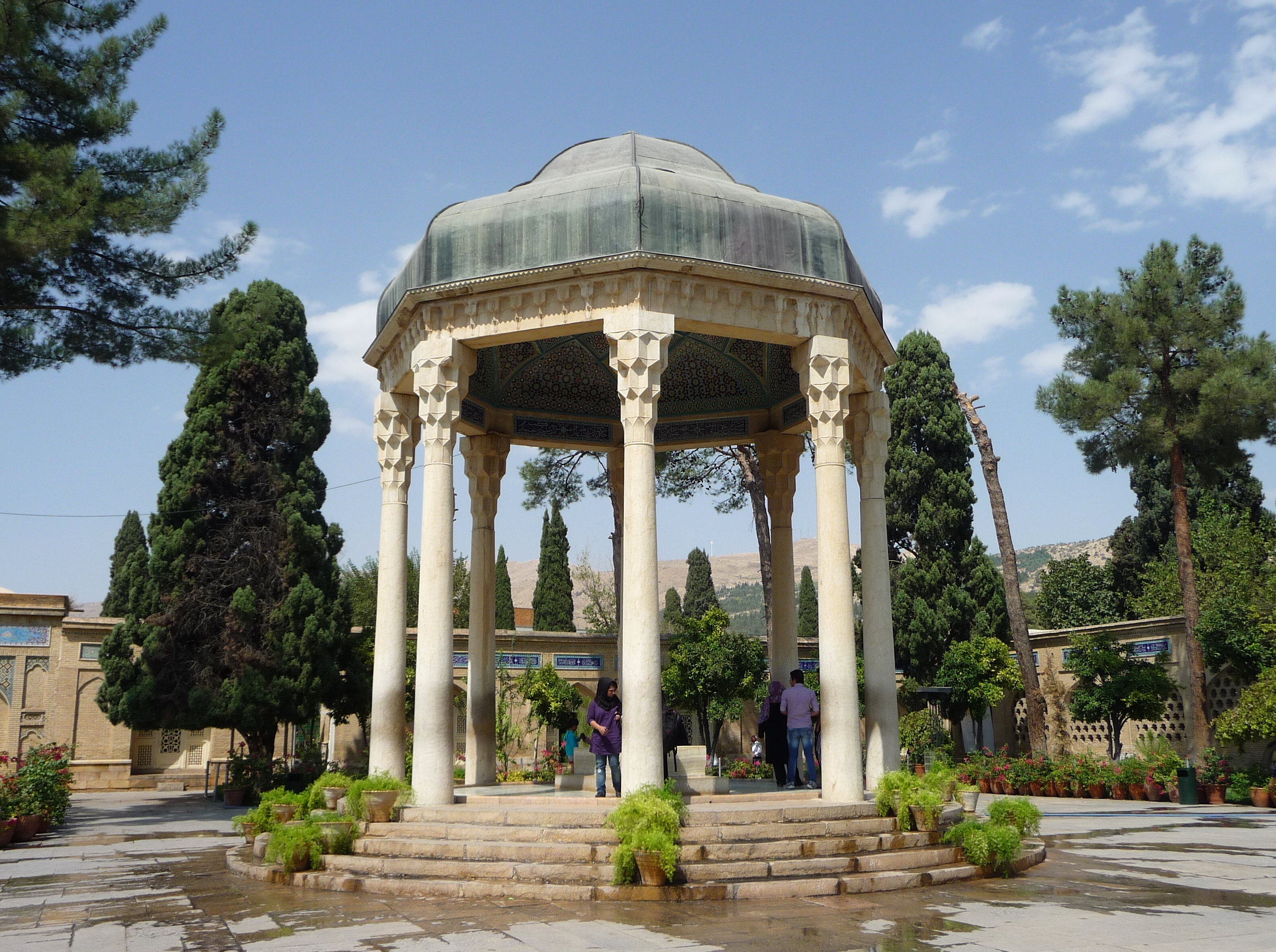 The tomb of Hafez in Shiraz (Fars, Iran).